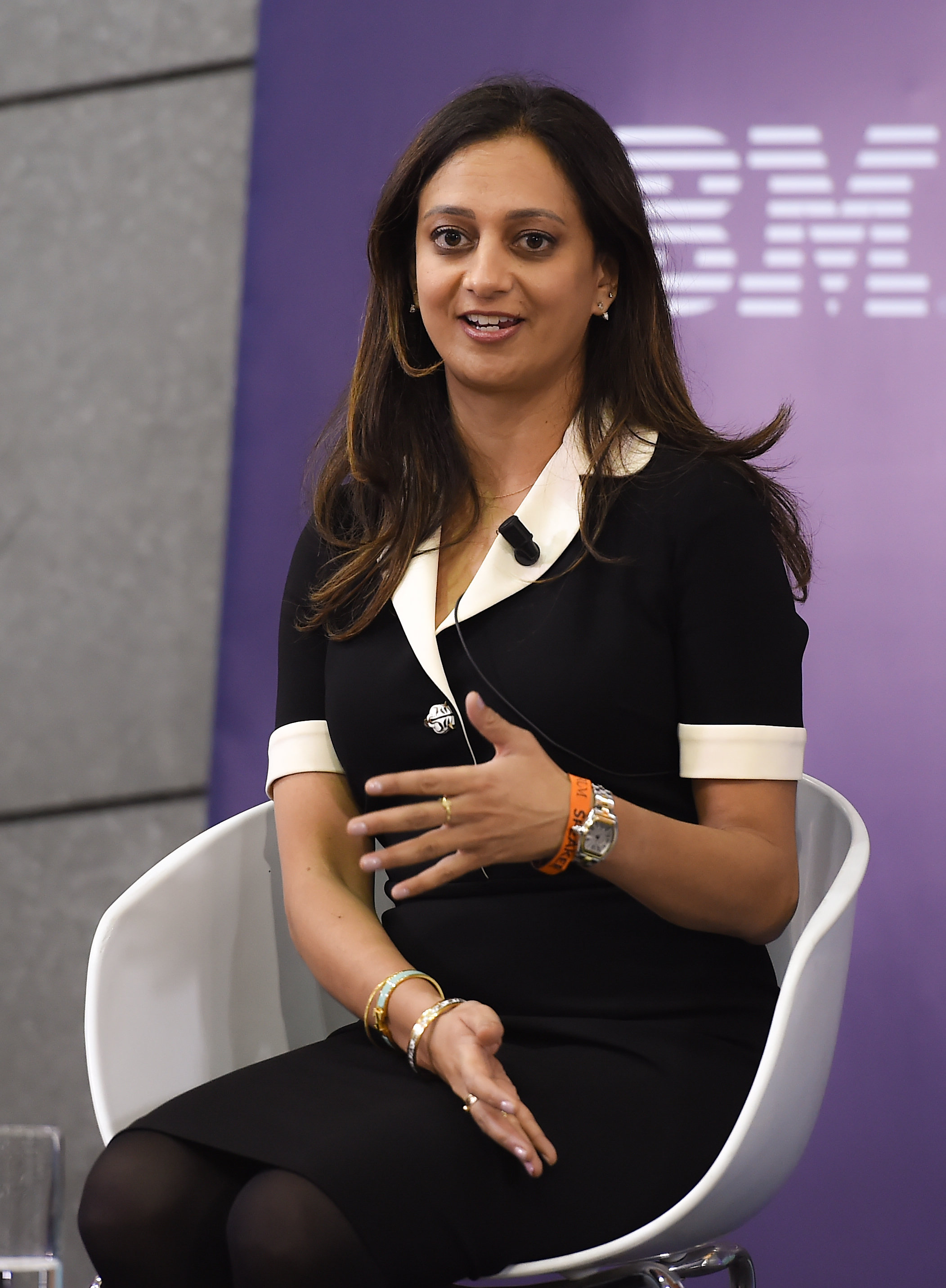 6 November 2018; Jalak Jobanputra, Founding Partner, FuturePerfect Ventures at the Women Tech Lunch Stage during the opening day of Web Summit 2018 at the Altice Arena in Lisbon, Portugal. Photo by Eóin Noonan/Web Summit via Sportsfile